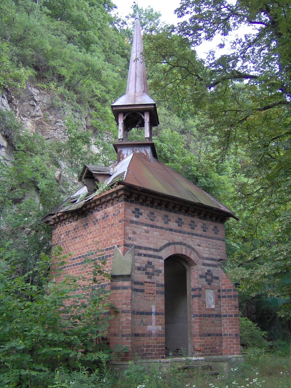 Chapel of Saint Anthony of Padua, Pisárky, Brno, Czech Republic